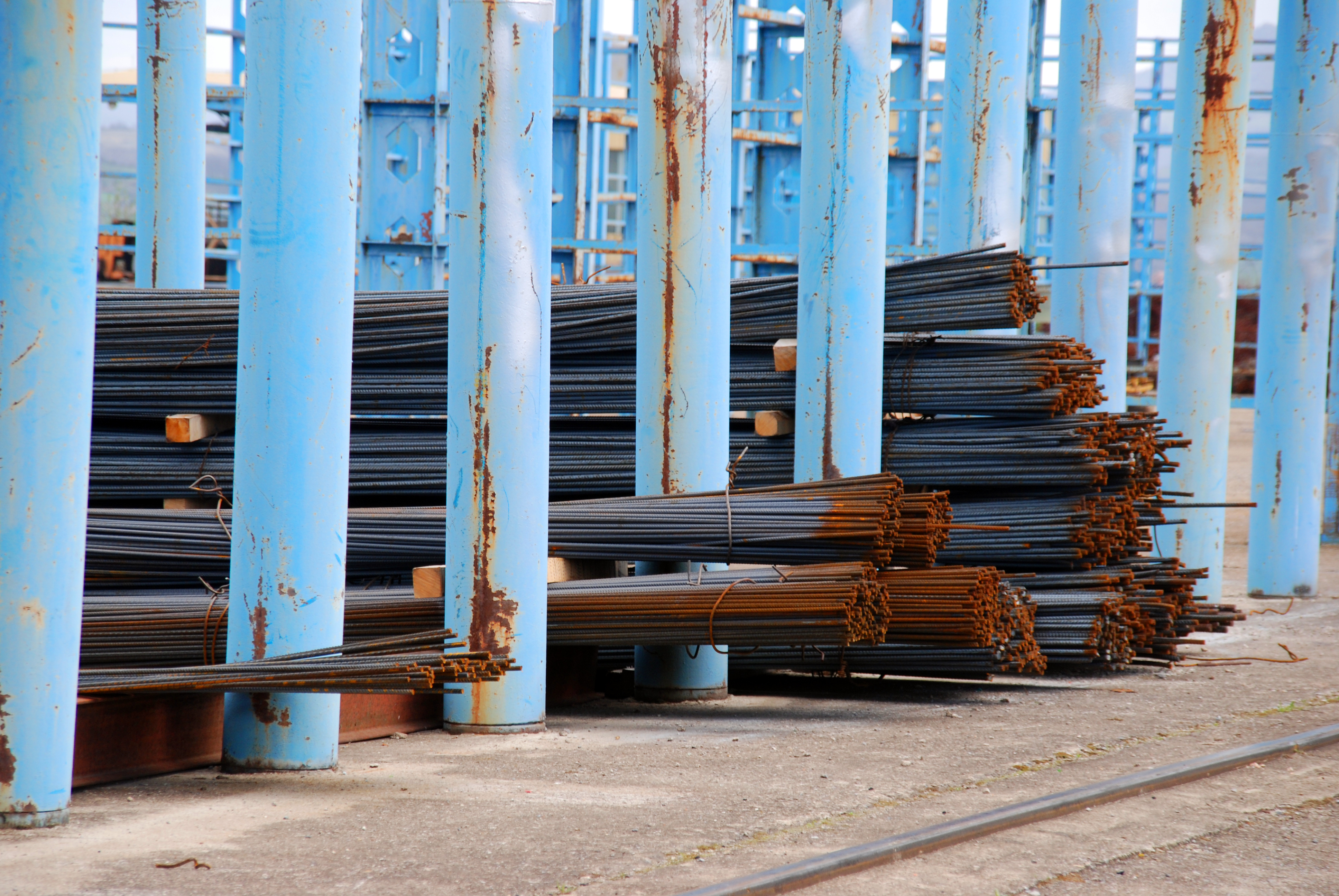 photo: Arian Selmani